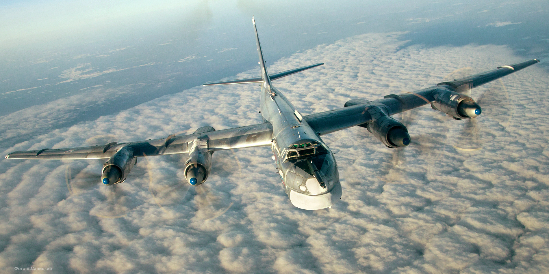 Tupolev Tu-95